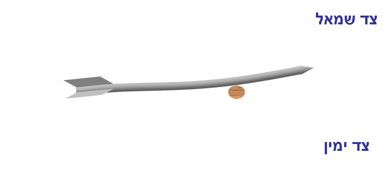 Archer's Paradox stage 2